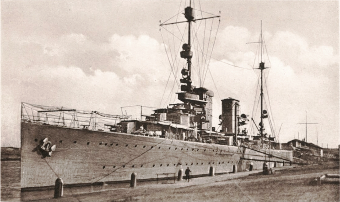 "Cruiser Hr.Ms. "Java" moored at the quayside of the New Diep (Den Helder). In the background a watch or accommodation ship."